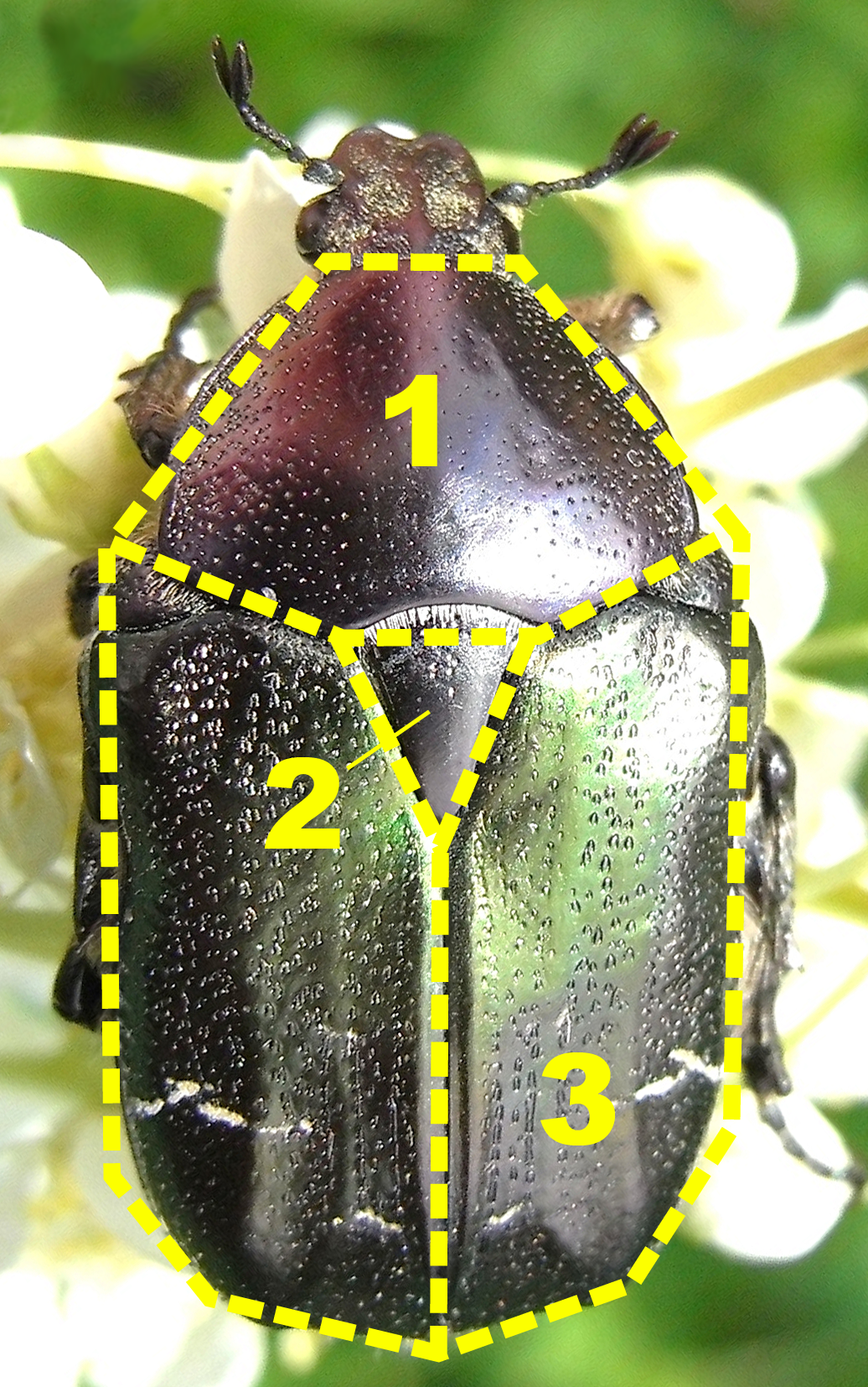 Similarity of the scutoid solid with the dorsal thoracic exoskeleton in cetoniid/cetoniine beetles (here exemplified by an individual of Cetonia aurata) according to Gómez-Gálvez et al. (2018)[1]. Numbers refer to the (pro)scutum (1), correspondig to one of the basal faces of the scutoid, the scutellum (2), and the elytrae (3 = right elytrum), both corresponding to lateral faces of the scutoid. The name of the scutoid solid is (officially) derived from the scutum and scutellum elements.